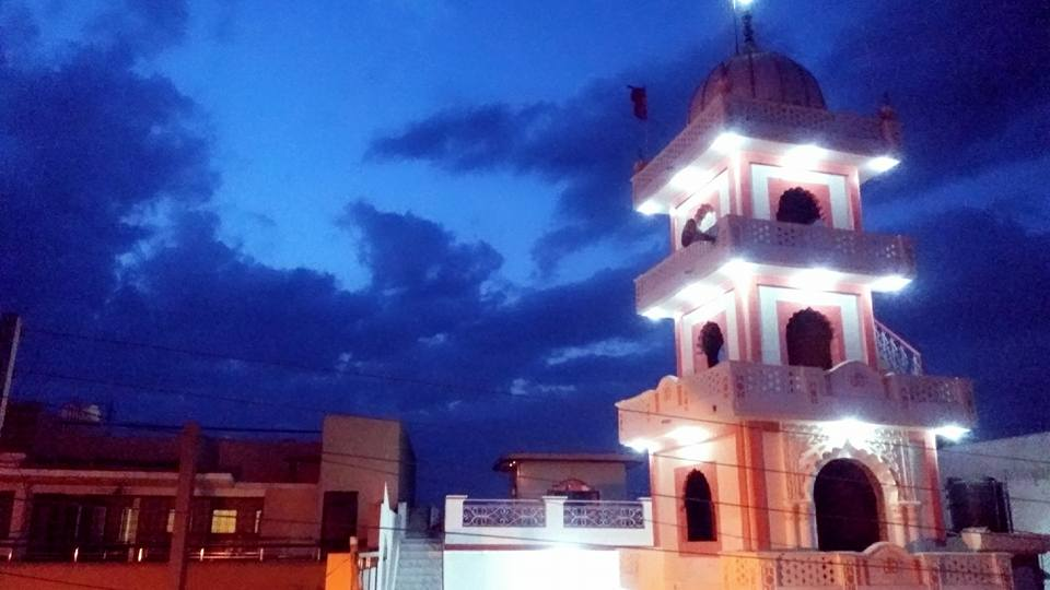 Dharam Asthan